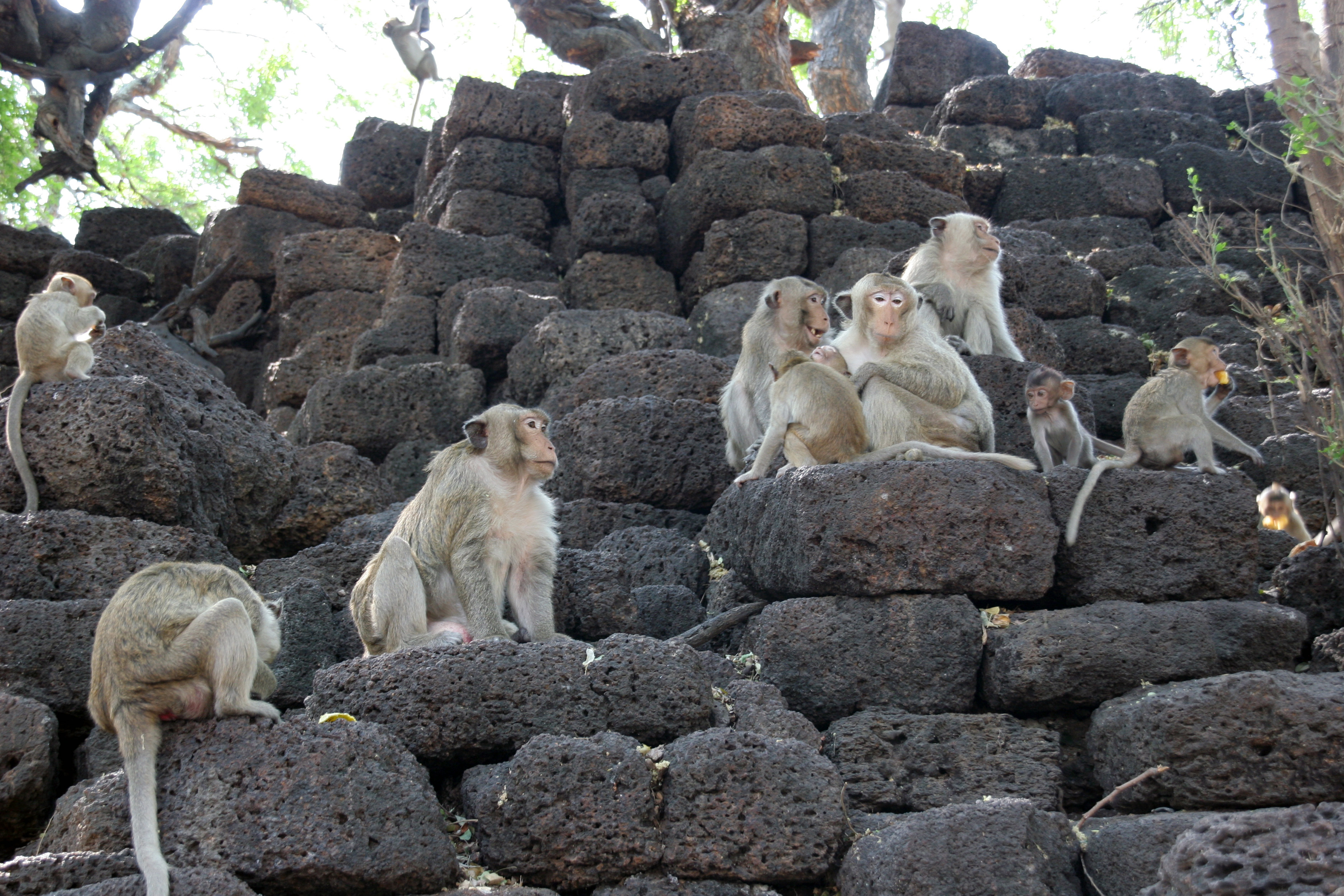 Crab-eating Macaques in Lopburi, Thailand (behind Sarn Phra Karn shrine)